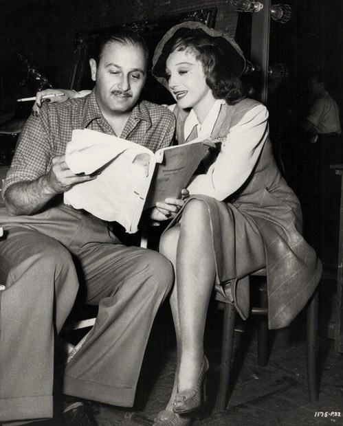 Edwin L. Marin (director) & Elisabeth Bergner, on the set of Paris Calling (1942) - publicity still